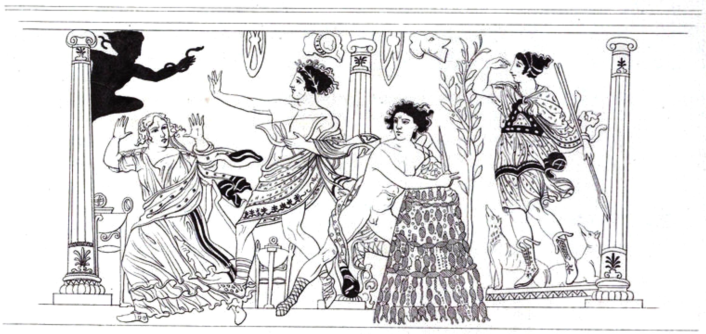 Black Fury painter's Orestes crater. Museum: Naples, Museo Archeologico Nazionale